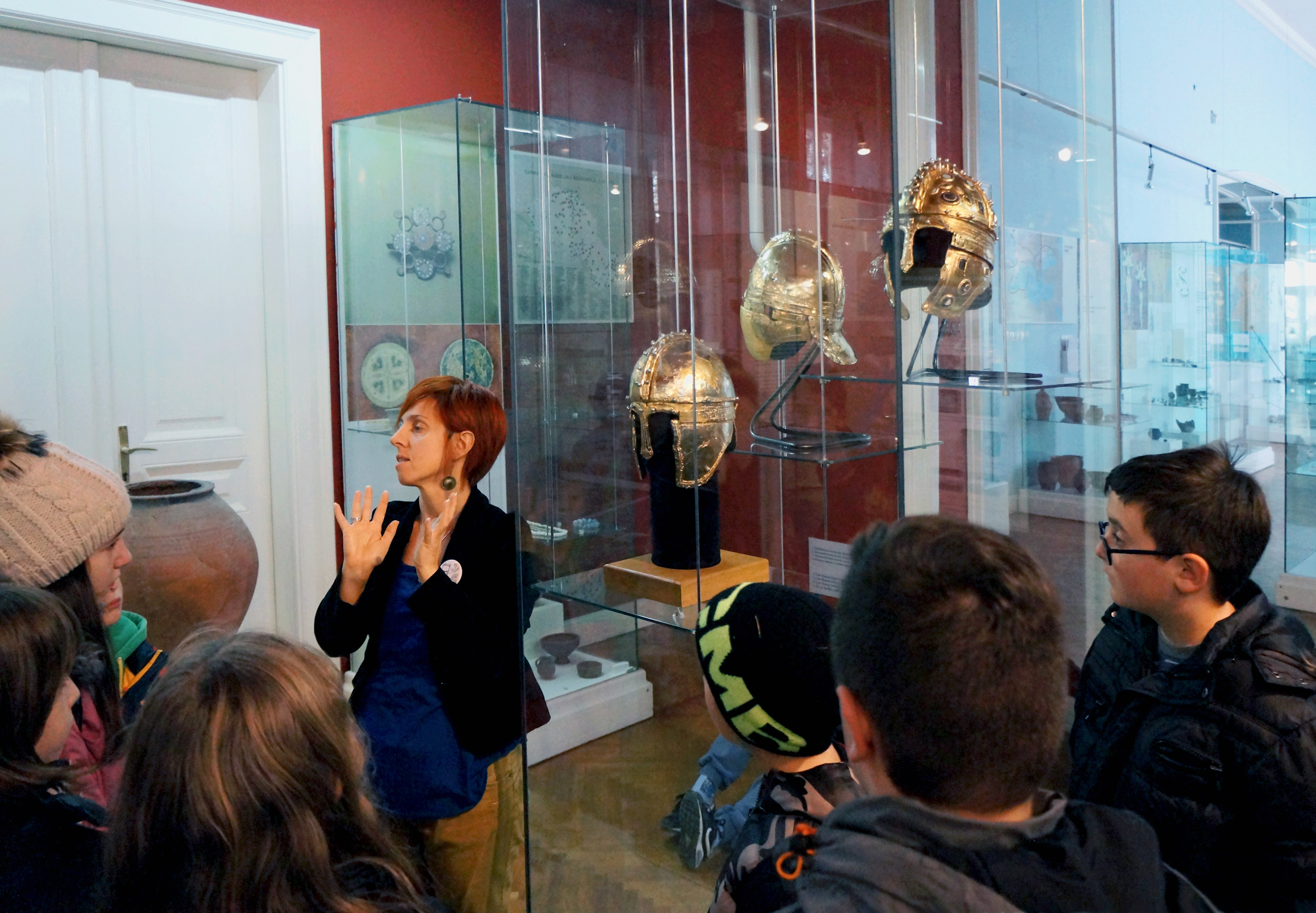 Curator-educator of the Museum of Vojvodina, Slađana Velendečić in explaining to the children the significance of the three late-roman parade helmets, of which the museum can boast as the only one in the world to have even three such in collection.Српски (ћирилица): Музеј Војводине: кустос педагог Слађана Велендечић тумачи деци значај парадних римских шлемова у збирци музеја, који је једини на свету који има чак три таква у својој колекцији. Museum of Vojvodina Native nameМузеј ВојводинеLocationNovi SadCoordinates45° 15′ 23.57″ N, 19° 51′ 06.32″ E Established14 October 1847 Web page control : Q6941048 VIAF: 231993869 LCCN: n2012009683 GND: 4283993-2 WorldCat institution QS:P195,Q6941048